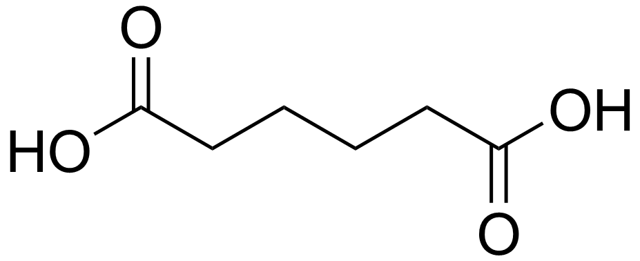 Chemical structure of adipic acid created with ChemDraw.